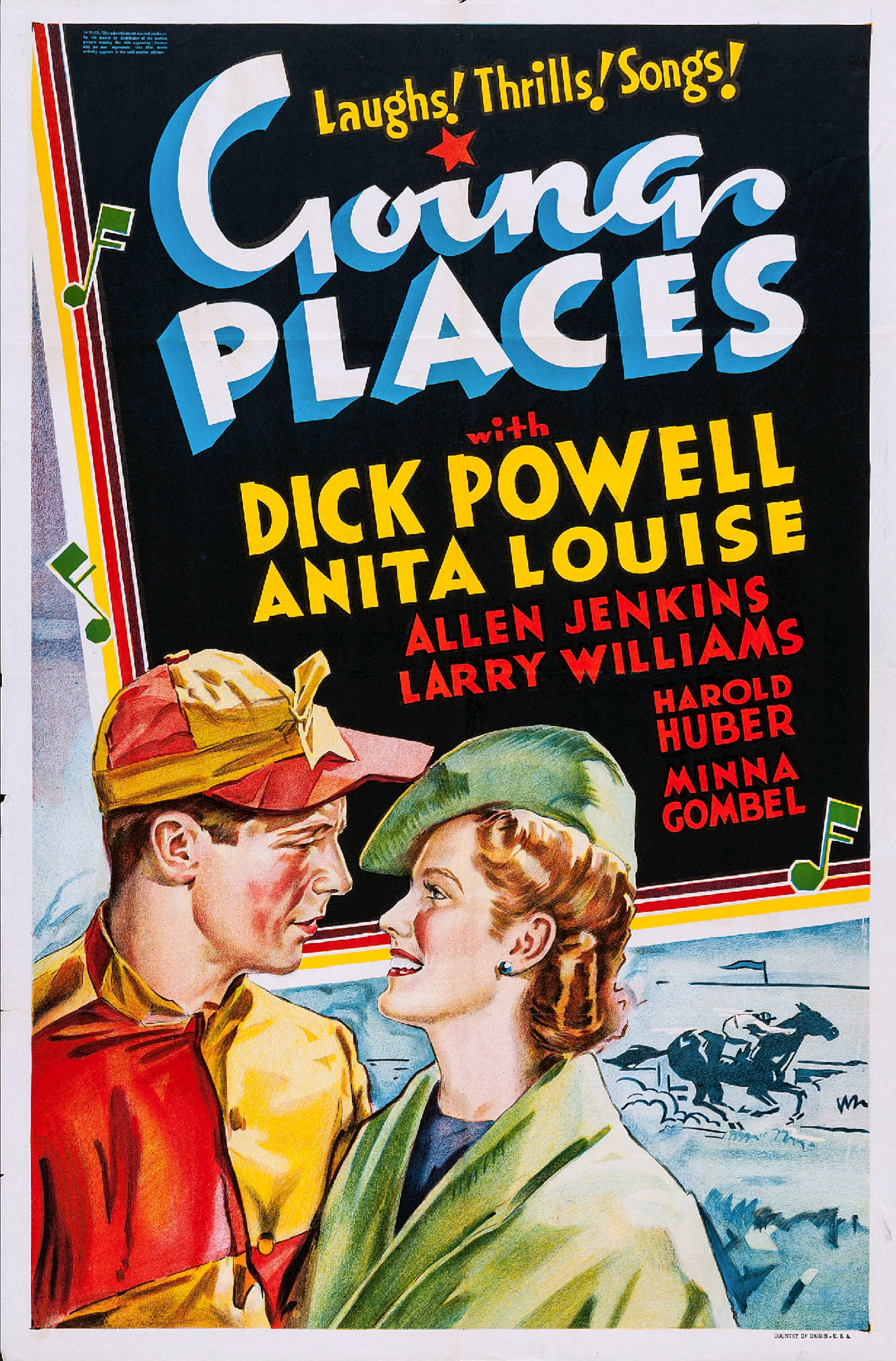 Poster for the 1938 film Going Places. The item has no copyright markings on it as can be seen in the links above. At bottom right is Country of origin USA. At upper left is the following disclaimer: This advertisement was not produced by the maker or distributor of the motion picture bearing the title appearing therein and no one represents that the scene actually appears in the said motion picture.